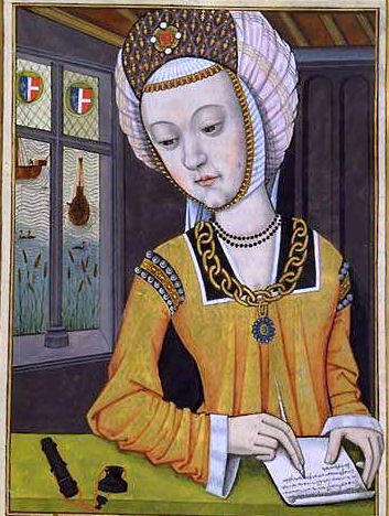 Detail of second portrait of Hypsipylé, first wife of Jason, from Octavien de Saint-Gelais (b. 1468-d. 1502), translation of Ovid's Epistulae heroidum, Cognac, 1496-1498, Manuscripts Department, Bibliothèque Nationale de France, Western Section, Fr. 875, Parchment